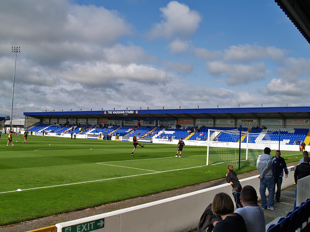 The Vaughan Stand at the Deva Stadium, home of Chester FC (then Chester City FC). Saturday 6th September 2008